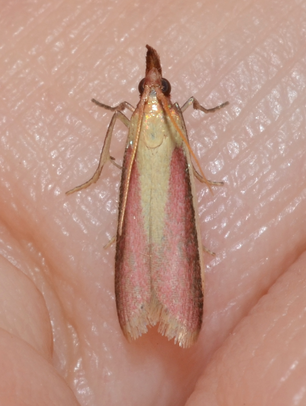 Cuivre River State Park 5/31/15